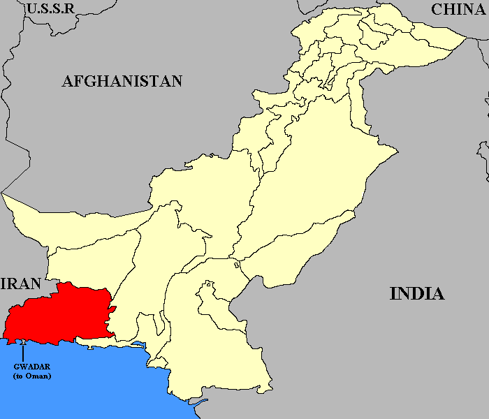 This map shows the relative position of the former State of Makran in Pakistan up to its dissolution in 1955.